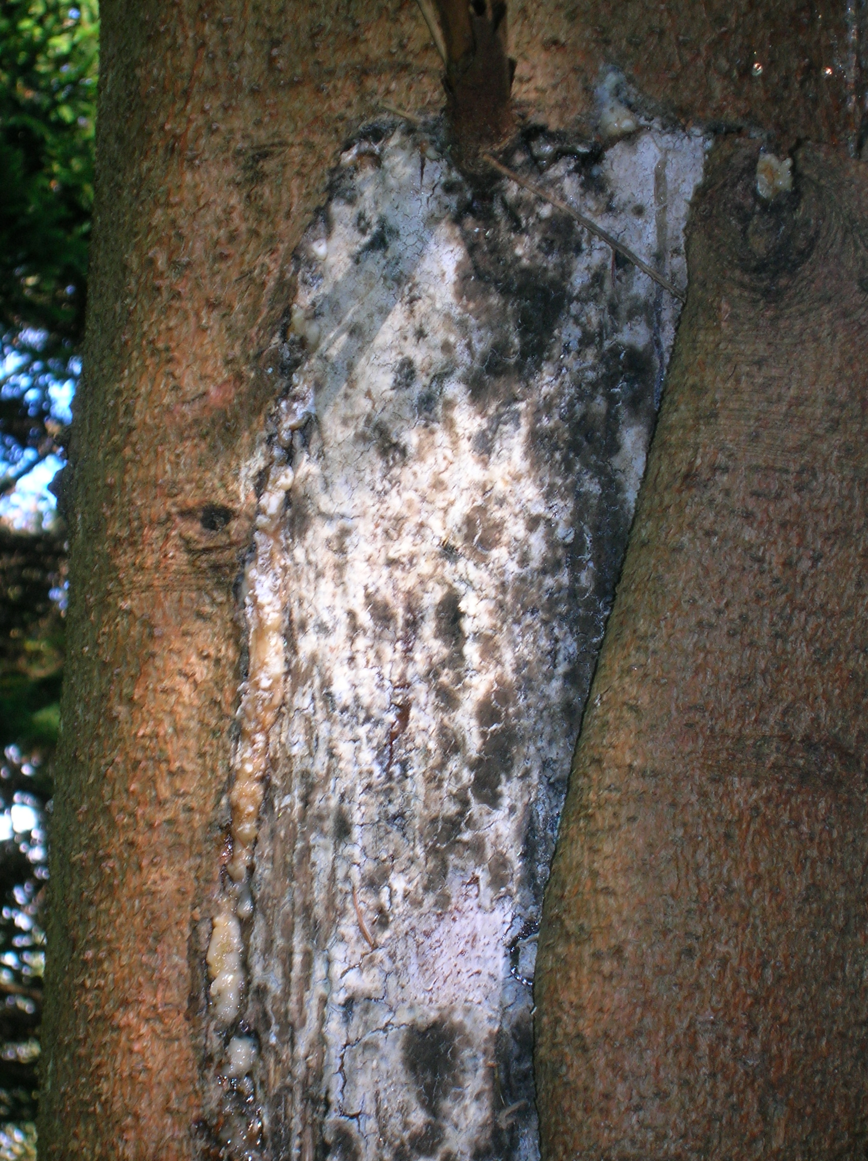 Sun scald on Sitka Spruce at Eglinton Country Park, North Ayrshire, Scotland